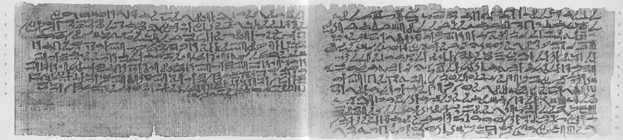 A facsimile of the start of the Prisse Papyrus, showing the complete hieratic text of the Instructions of Kagemni.